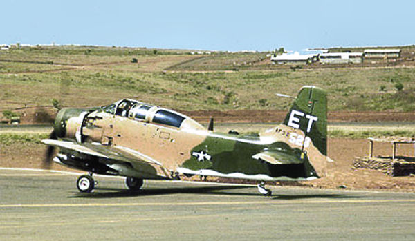 A U.S. Air Force Douglas A-1E Skyraider (s/n 52-132523) of the 6th Air Commando Squadron at Pleiku Air Base, South Vietnam, in 1968-69.